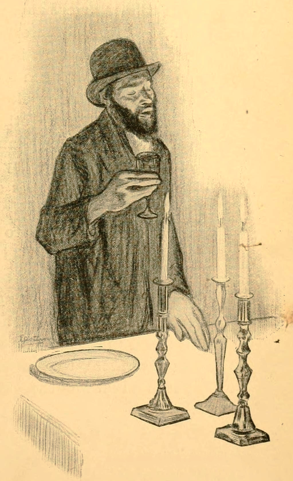 From :The spirit of the Ghetto; studies of the Jewish quarter in New York